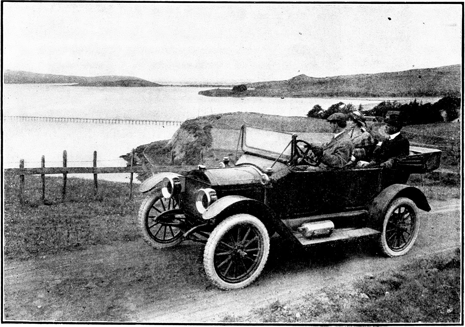 Motoring Magazine and Motor Life July 1915